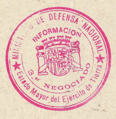 Seal of the Ministry of National Defense of the Second Spanish Republic (1936)